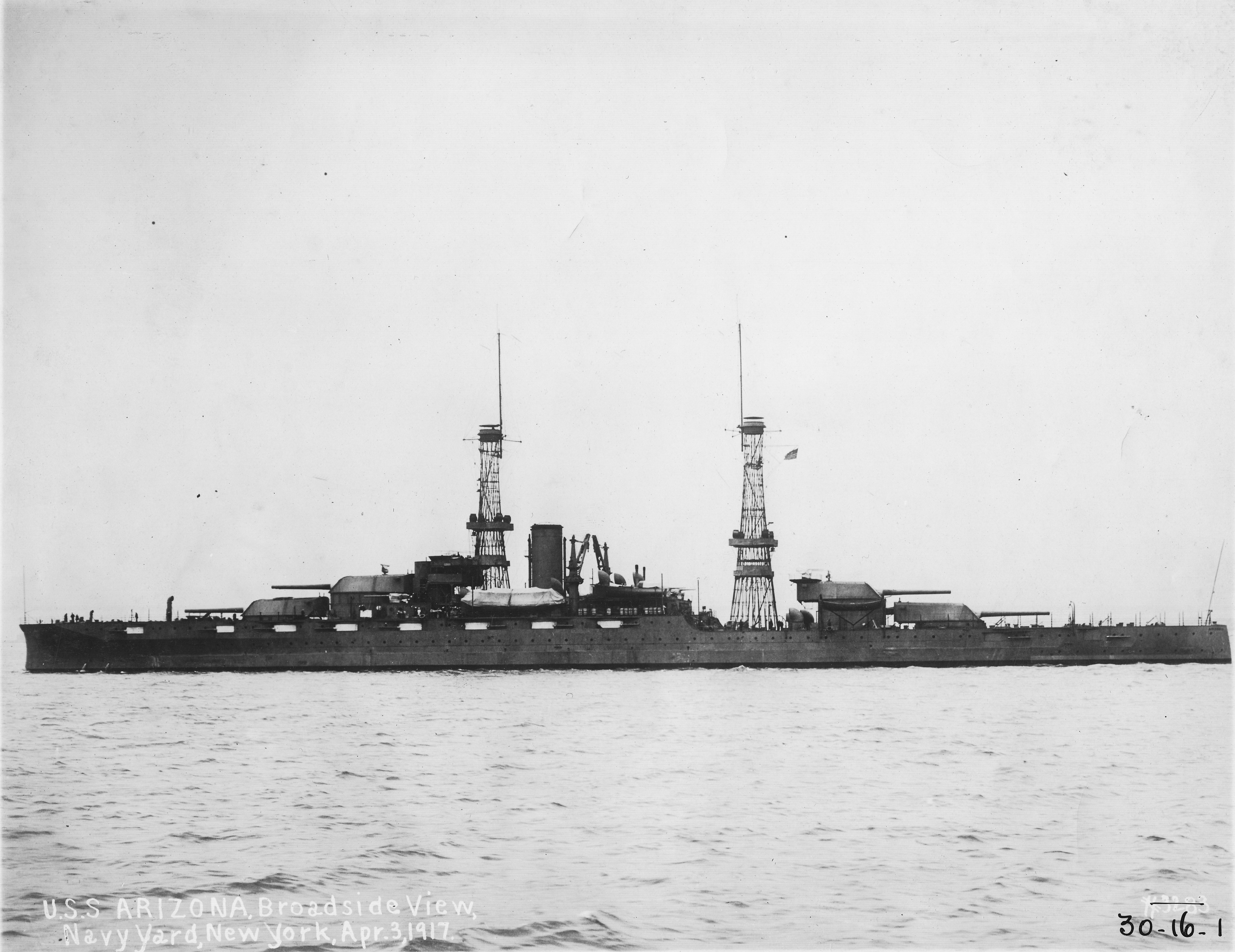 USS Arizona in the New York Navy Yard in 1917.